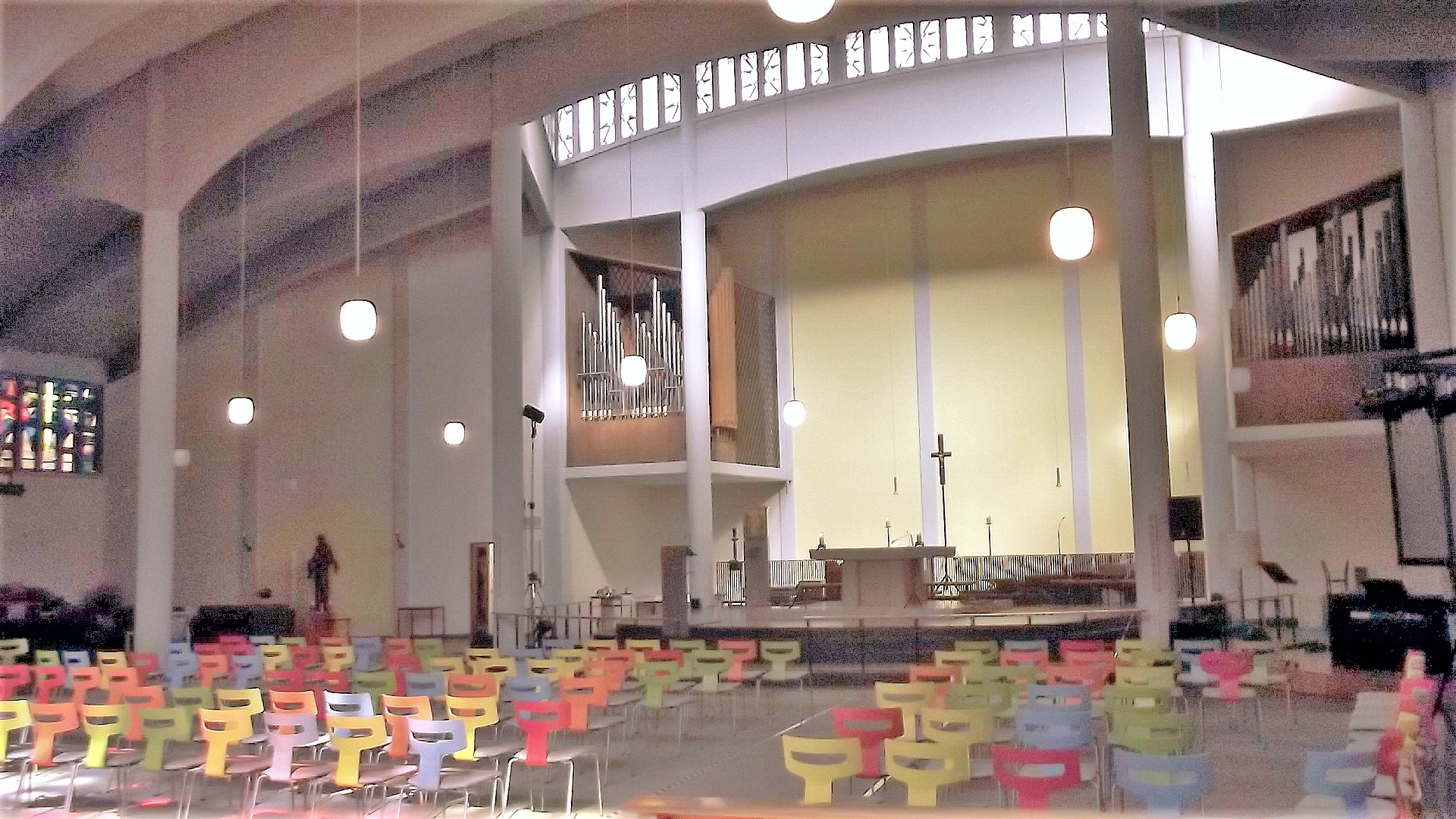 Interior of the roman catholic St.-Elisabeth's-church in Saarbrücken, Saarland, Germany